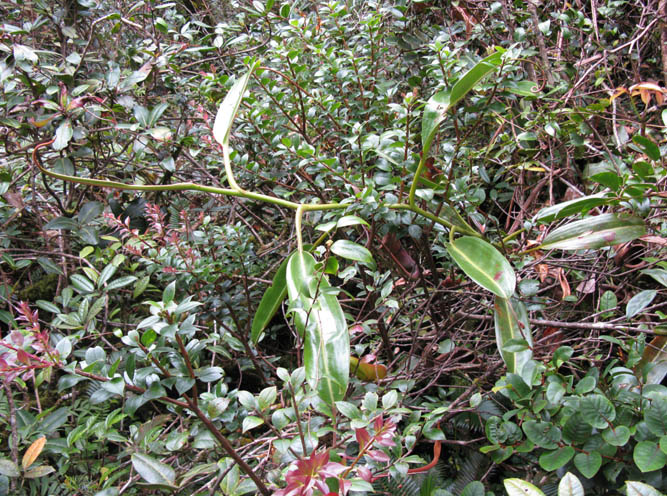 N.trusmadiensis